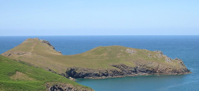 The Rumps. This is a promontory north of Polzeath in a strange double mounded shape, which perhaps gives a clue as to how it got its name. This was, like most other Cornish promontories, a coastal fortress in the Iron Age.